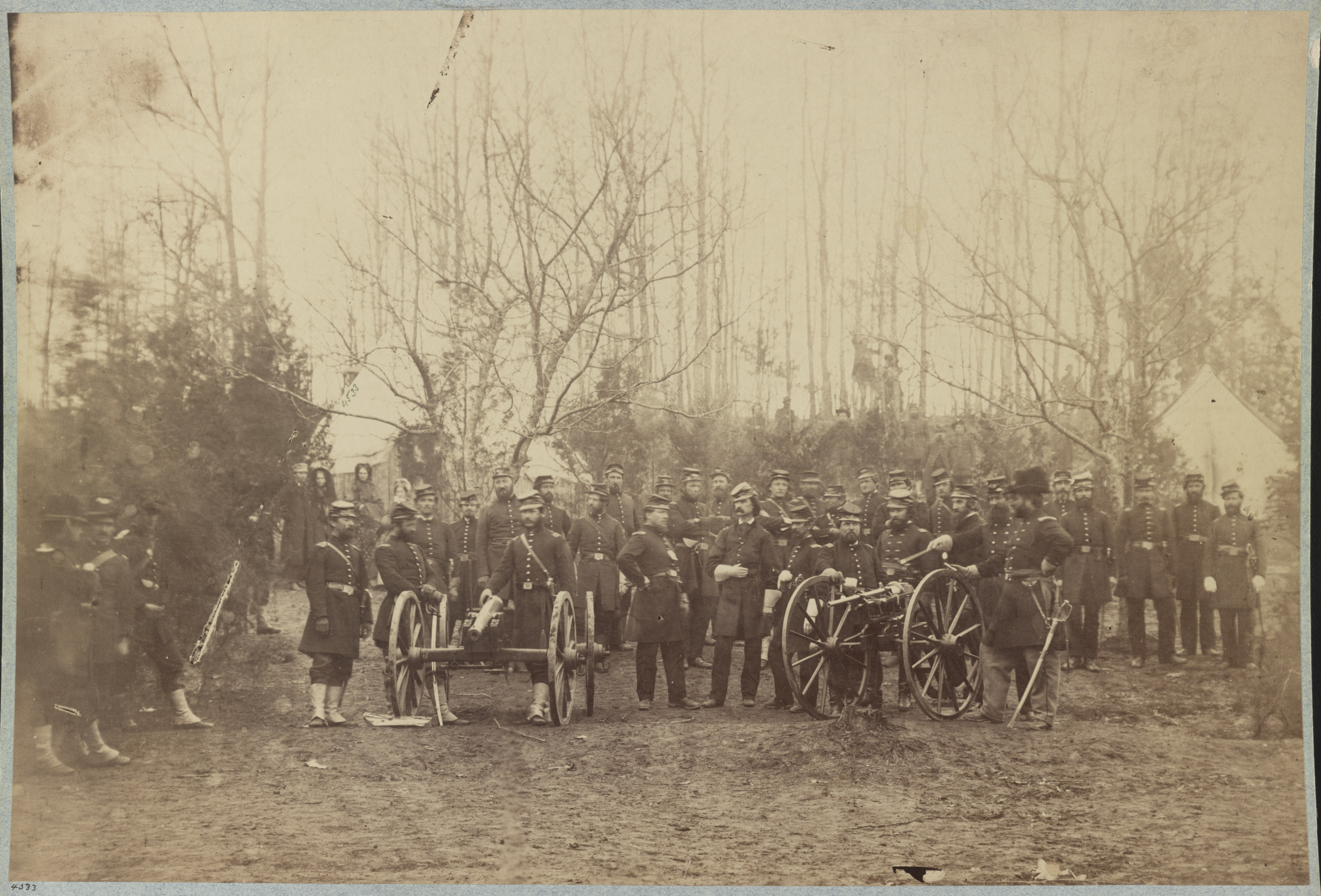 Title: Officers of 96th Pennsylvania Infantry Physical description: 1 photographic print on card mount : albumen. Notes: Gift; Col. Godwin Ordway; 1948.; No. 4333.; Title from item.